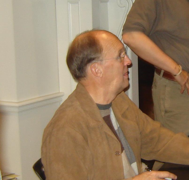 Neal Boortz, Libertarian talk show host, on a book tour for "Somebody's Gotta Say It".